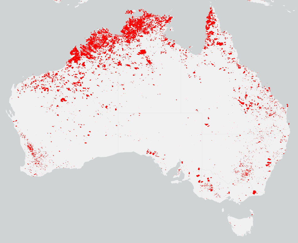 Burned areas shown in red detected by NASA's MODIS imaging sensors onboard Terra & Aqua satellites from June 2013 to May 2014. We acknowledge the use of data and imagery from LANCE FIRMS operated by NASA's Earth Science Data and Information System (ESDIS) with funding provided by NASA Headquarters.